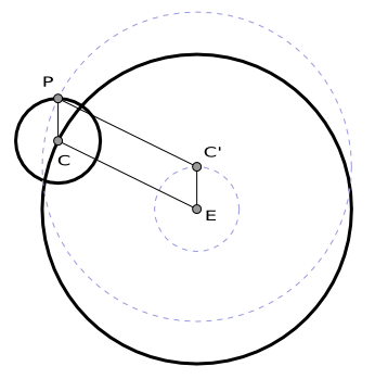 Diagram of Apollonius of Perga